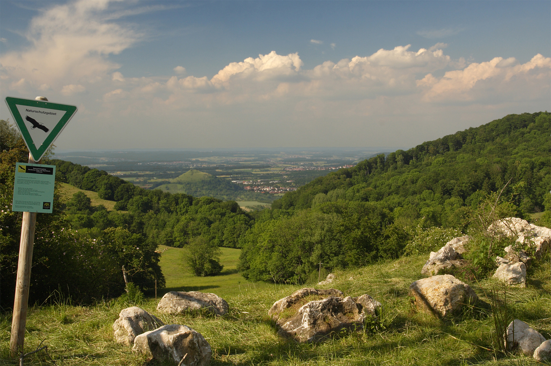 Naturschutzgebiet „Randecker Maar mit Zipfelbachschlucht“. The Randecker Maar used to be a crater lake. The erosive reverse move of the Alb plateau cut the crater in Pleistocene, openening it and emptying the lake. The remaining ground turned out to be a very rich site of fossils in exceptional good state of preservation. Over time the drainage of several karst springs formed a sinking creek with a valuable fauna and flora The crater is one of the volcanos within the Urach-Kirchheimer Vulkangebiet . It is a valuable Geotope. There is evidence of 356 volcanos of the type “Schwäbischer Vulkan”, all extinct in Upper Miocene. The mountain in the plane is the volcano and nature reserve Limburg.